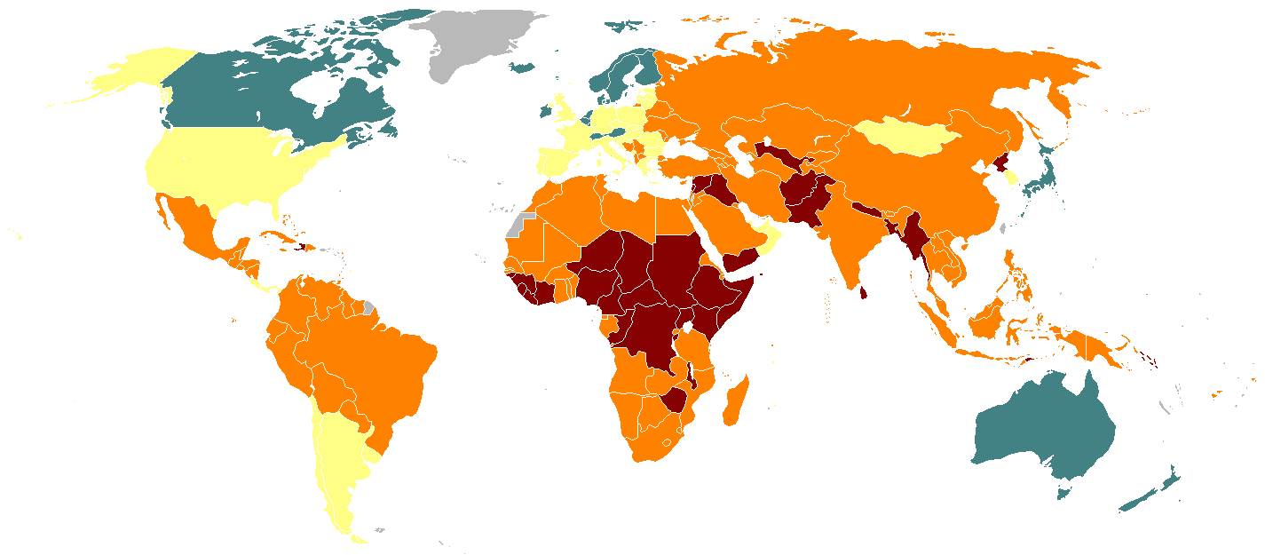 World Map: Failed States Index 2008